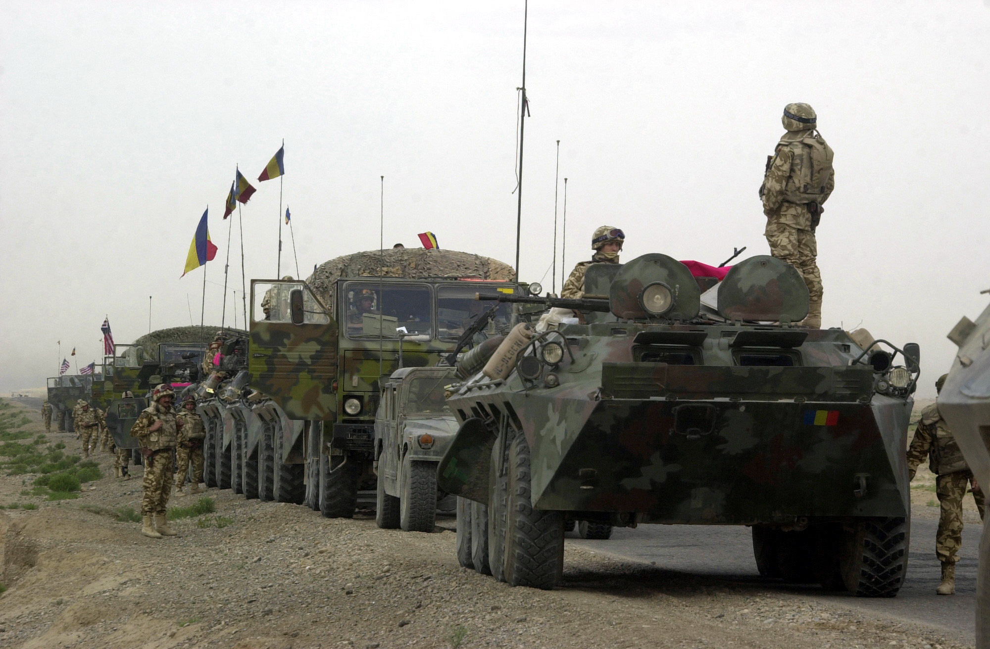 A Romanian Army TAB-77 Armored Personnel Carrier (APC) leads a convoy of multi-national vehicles from Kandahar Airfield to Kabul, the capital of Afghanistan. The purpose of the convoy is to gather information and to help with a road reconstruction project in Afghanistan during Operation ENDURING FREEDOM.